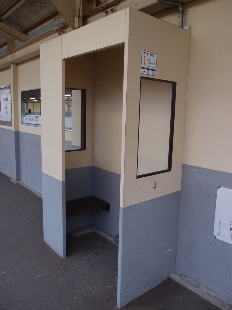 Eizan Electric Railway, Kyoto, Japan.